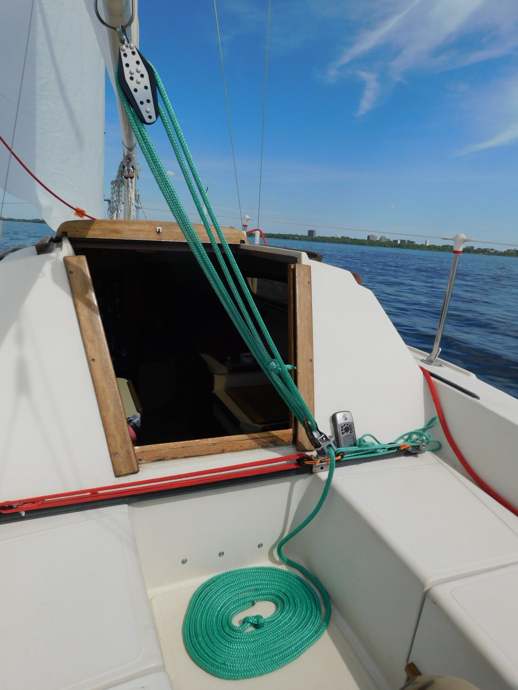 The mainsheet (large green line) on a US Yachts US 22 sailboat named Vesper.